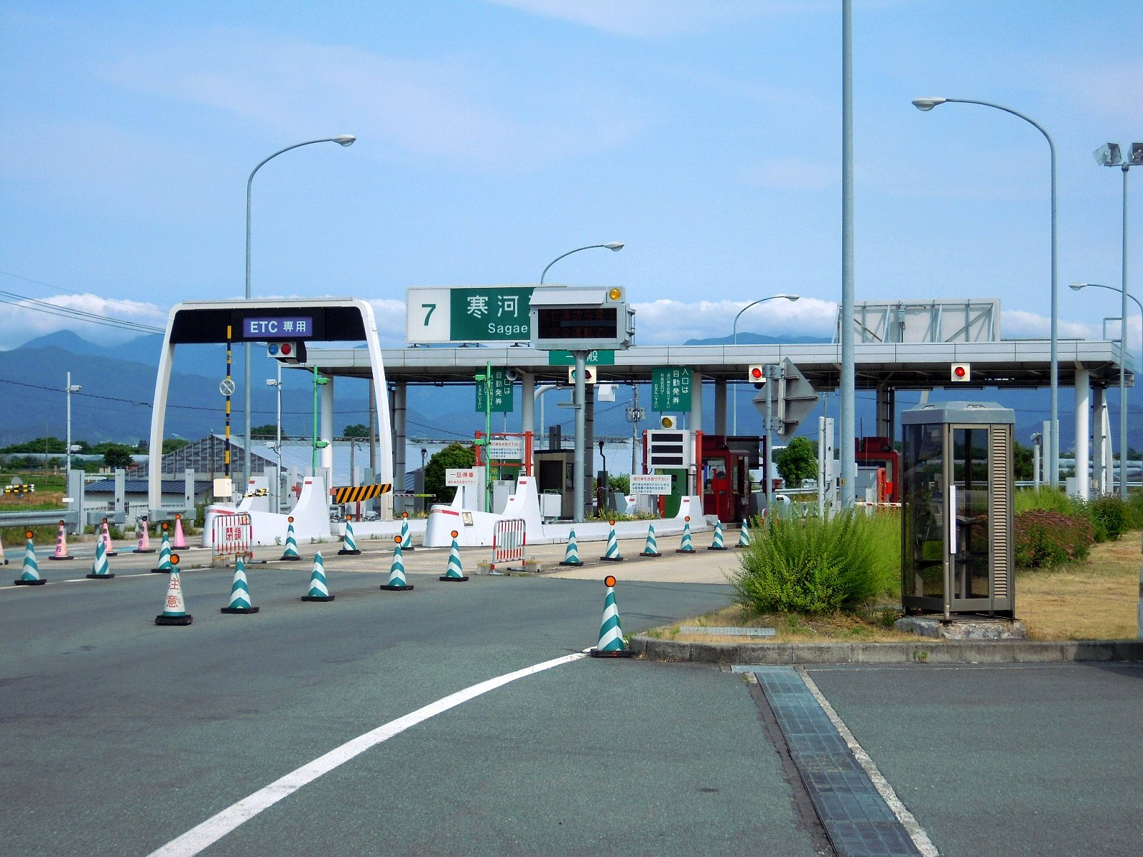 This Interchange, Sagae Interchange, is on Yamagata Expressway, in Sagae City, Yamagata Prefecture, Japan.